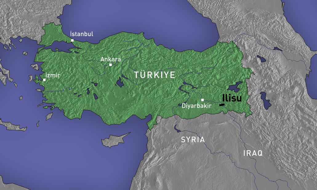 map of Turkey with Ilısu dam